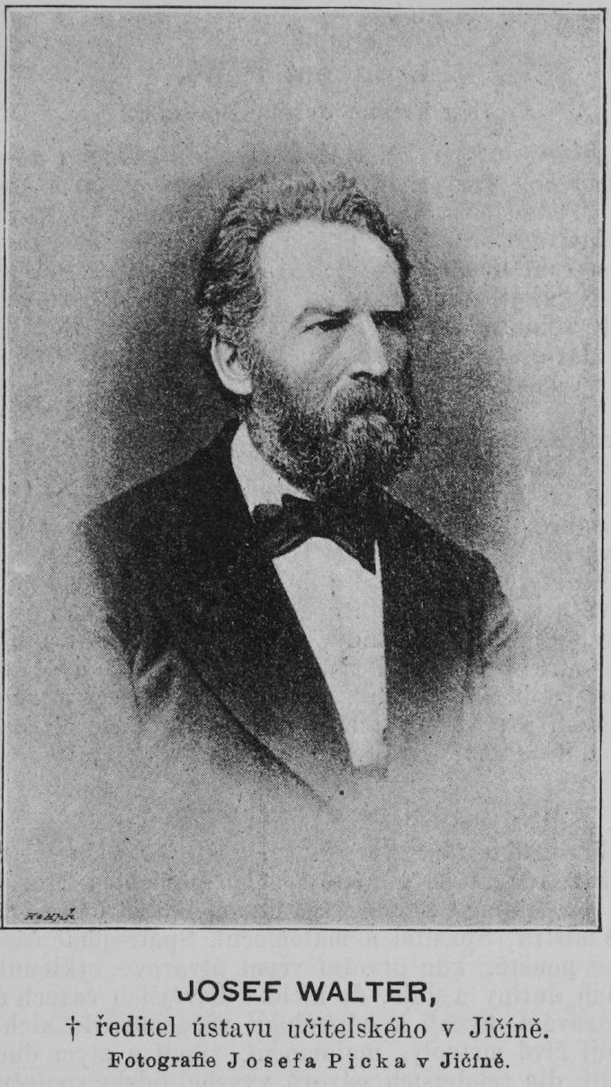 Portrait of Josef Walter (1815 - 1890), Czech educator